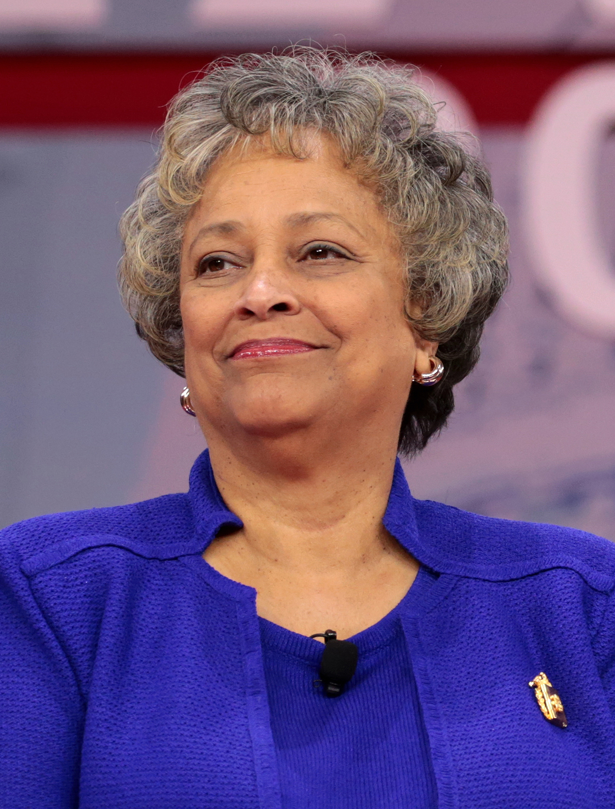 Kay Coles James speaking at the 2018 CPAC in National Harbor, Maryland.